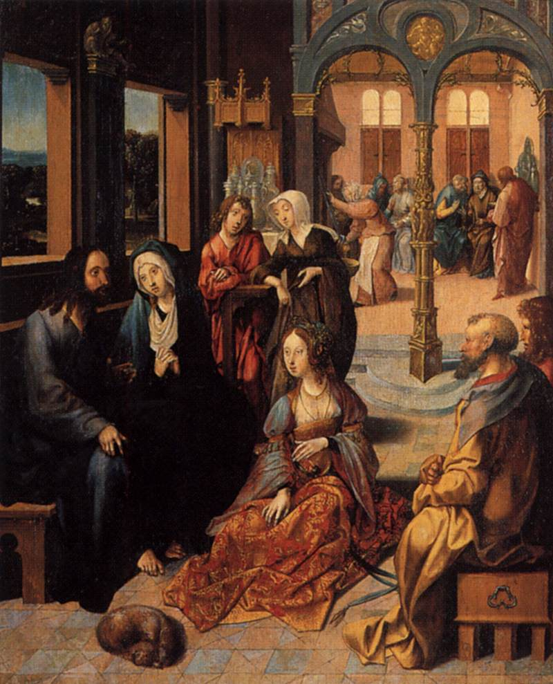 Interior with Christ in the house of Mary and Martha. To the left Christ is sitting next to his mother Mary speaking to some of his disciples. On the floor in front of him Mary, Martha's sister, is kneeling. In the background Martha is working by the fireplace. Above the archway to the kitchen a relief with the death of Lucretia is placed.